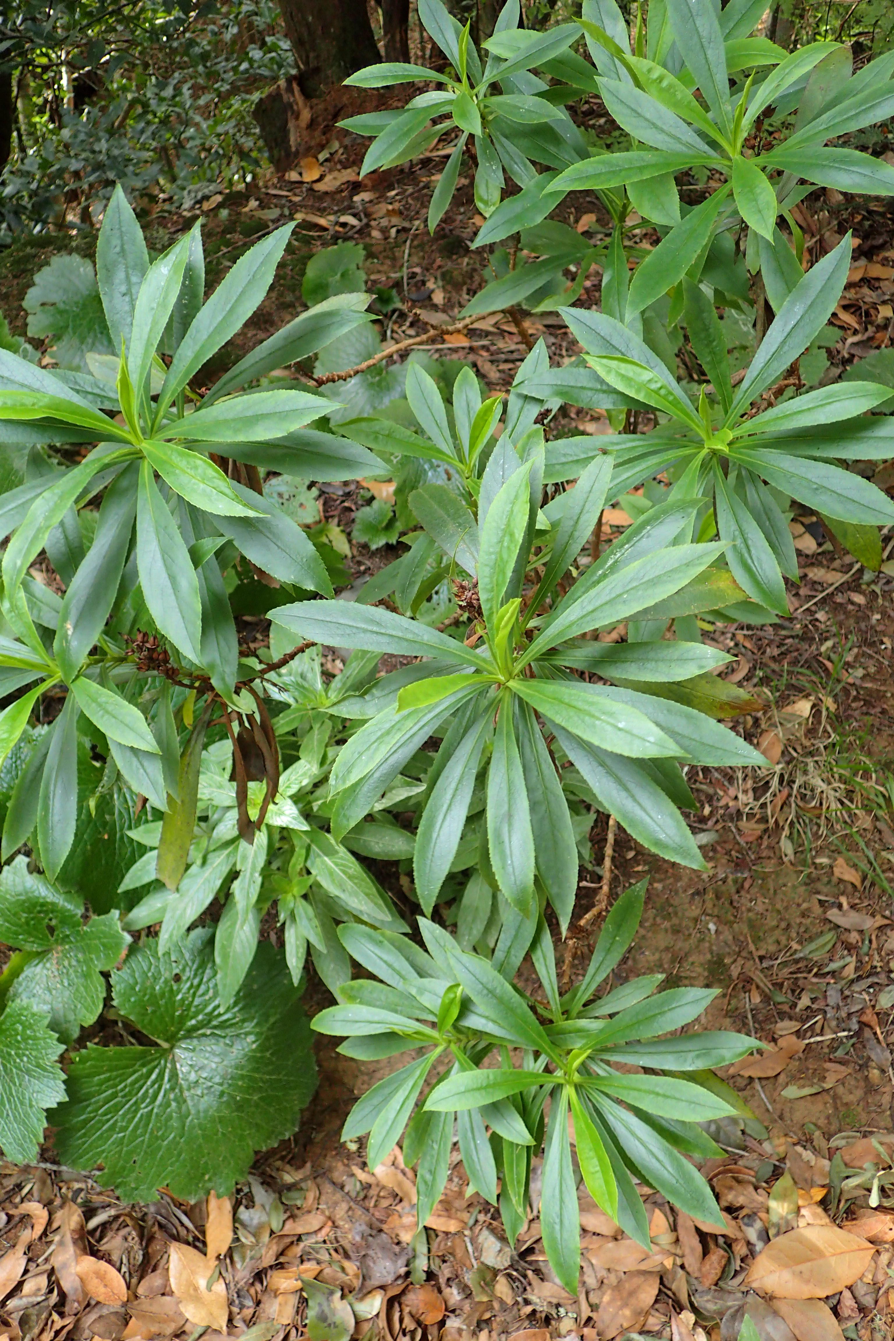 Isoplexis canariensis (Digitalis canariensis) in El Bailadero, Anaga Mountains, Tenerife, Canary Islands